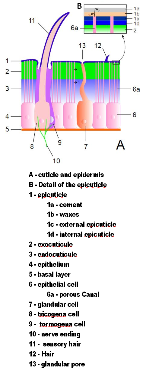 Illustration of an idealized arthropod exoskeleton. The original illustration was done by Xvazquez, title=File:Cuticula.svg&oldid=131073200 File:Cuticula.svg Description Estructura de la cutícula de los artrópodos / Arthropods cuticle structureDate 6-I-2008Source Own workAuthor Xvazquez Category:Arthropoda current 11:05, 6 January 2008 Thumbnail for version as of 11:05, 6 January 2008 455 × 583 (61 KB) Xvazquez I have taken the original file and altered it significantly to include English language definitions. Many thanks Xvazquez Estructura de la cutícula de los artrópodos / Arthropods cuticle structure